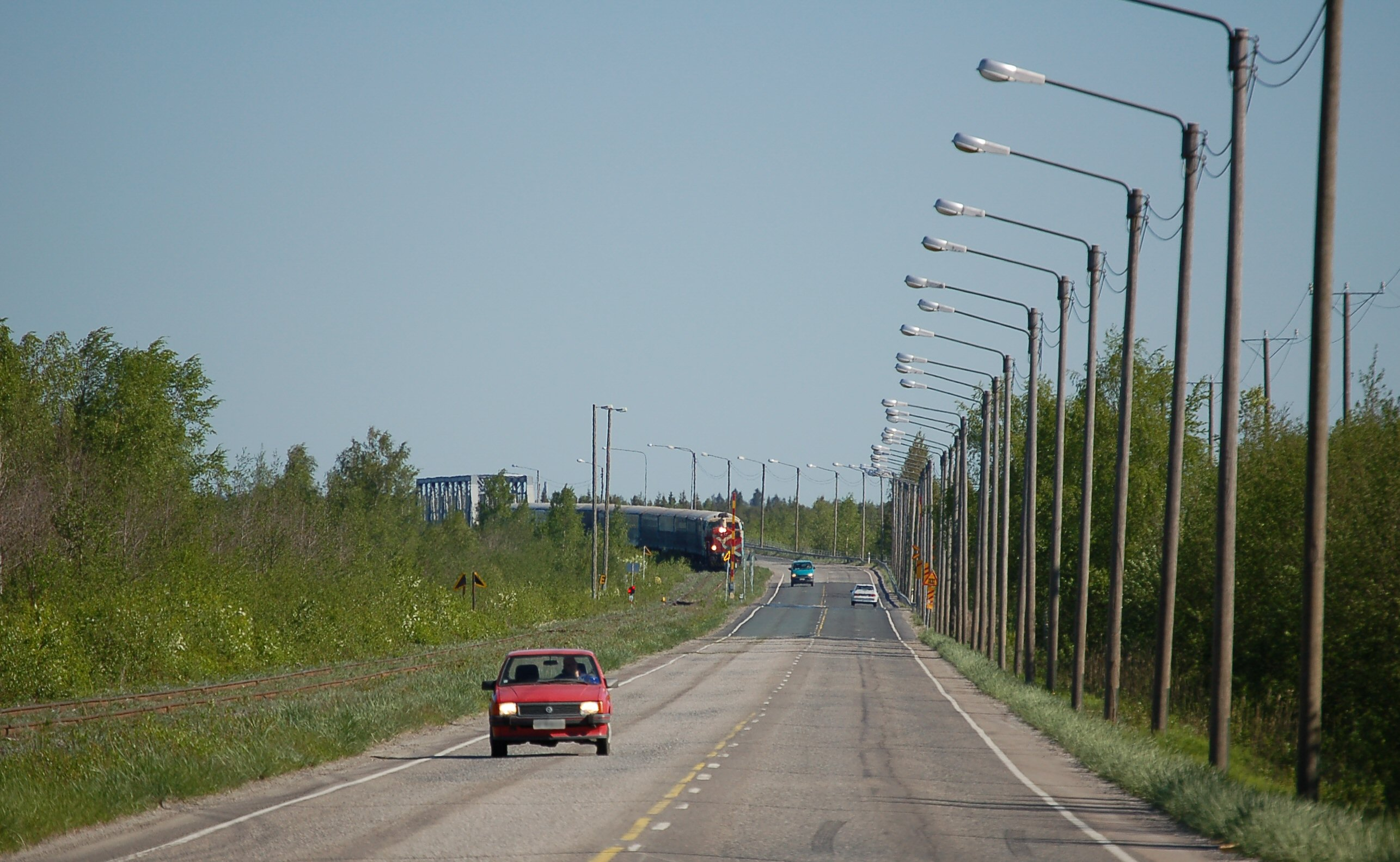 Railway line from Kemi station to Ajos Harbour alongside regional road 920 in Kemi, Finland.